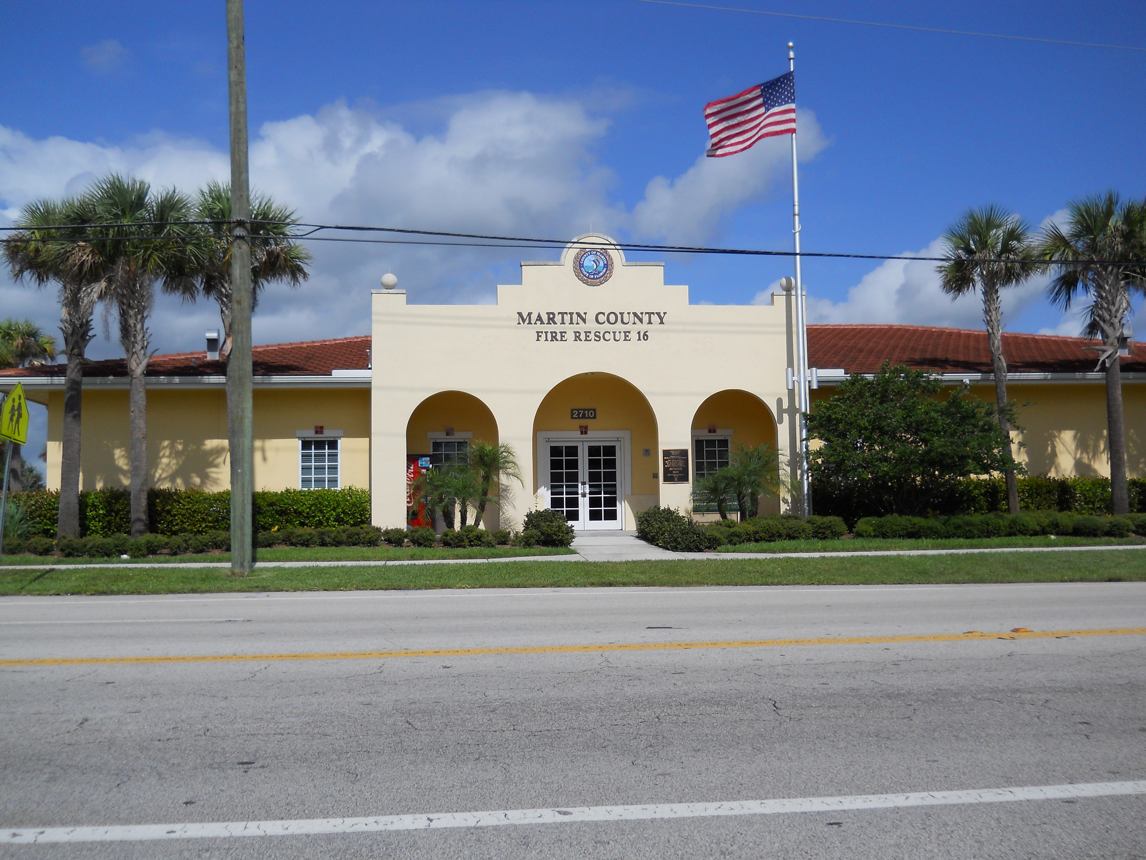 Martin County Fire Rescue Station 16 on Savanna Road, Jensen Beach Florida: from directly across Savanna Road